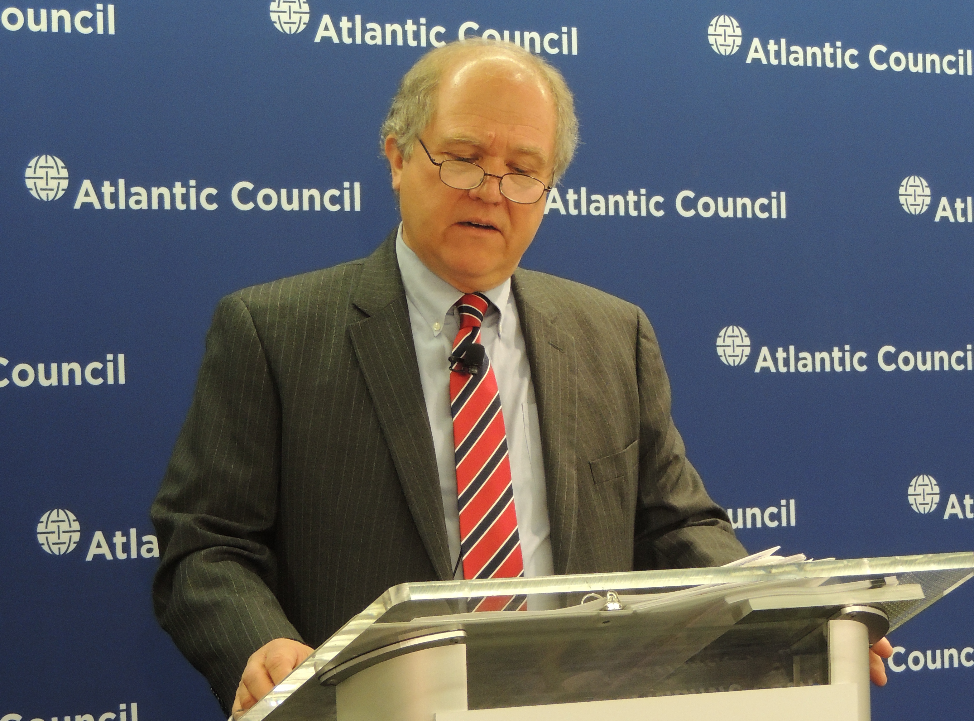 Special Inspector General John F. Sopko Speaking at the Atlantic Council